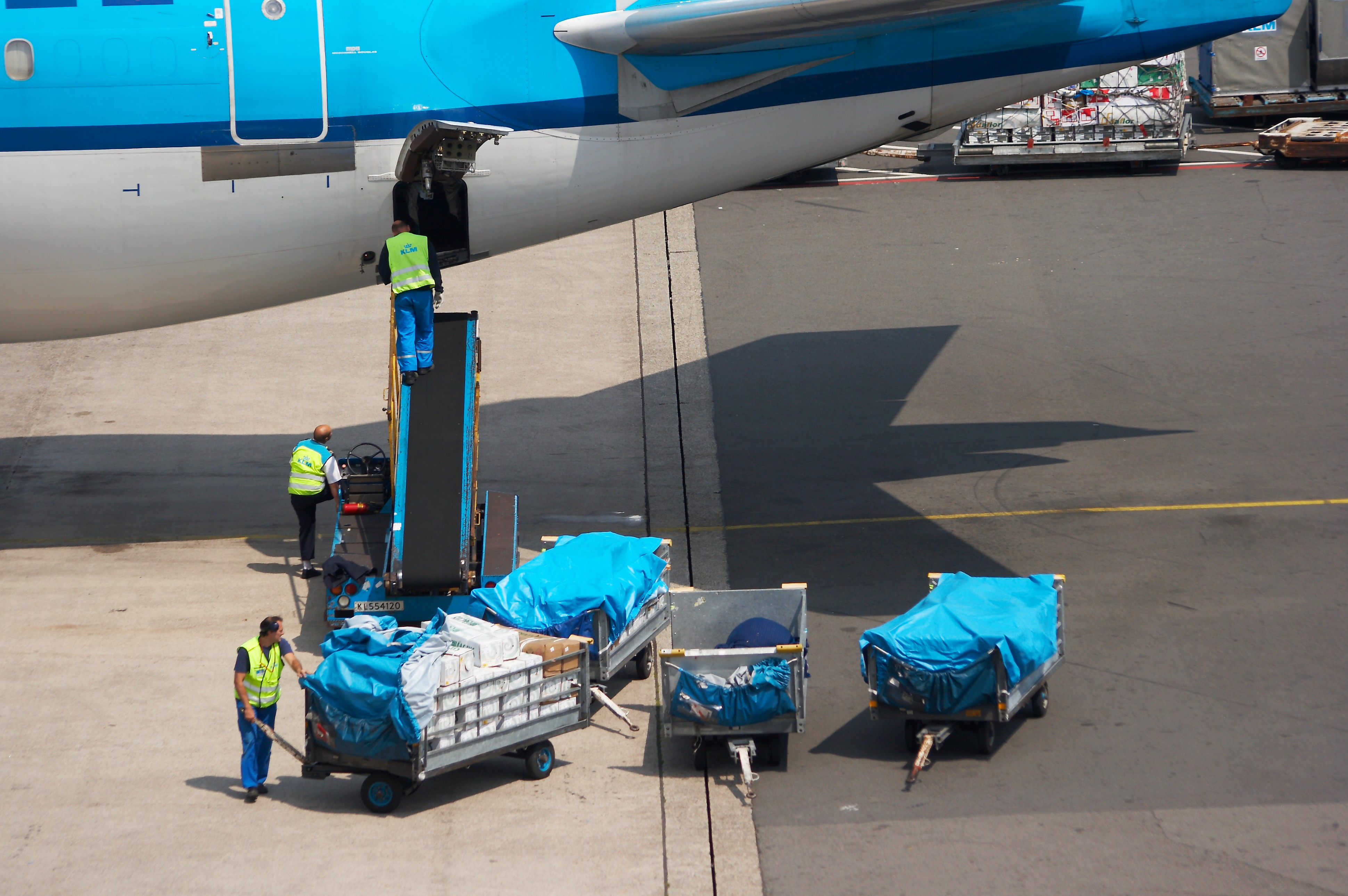 Aircraft: McDonnell Douglas MD-11 Airline: KLM - Royal Dutch Airlines Registration/CN: PH-KCA (cn 48555/557) Place: Amsterdam - Schiphol (AMS / EHAM)